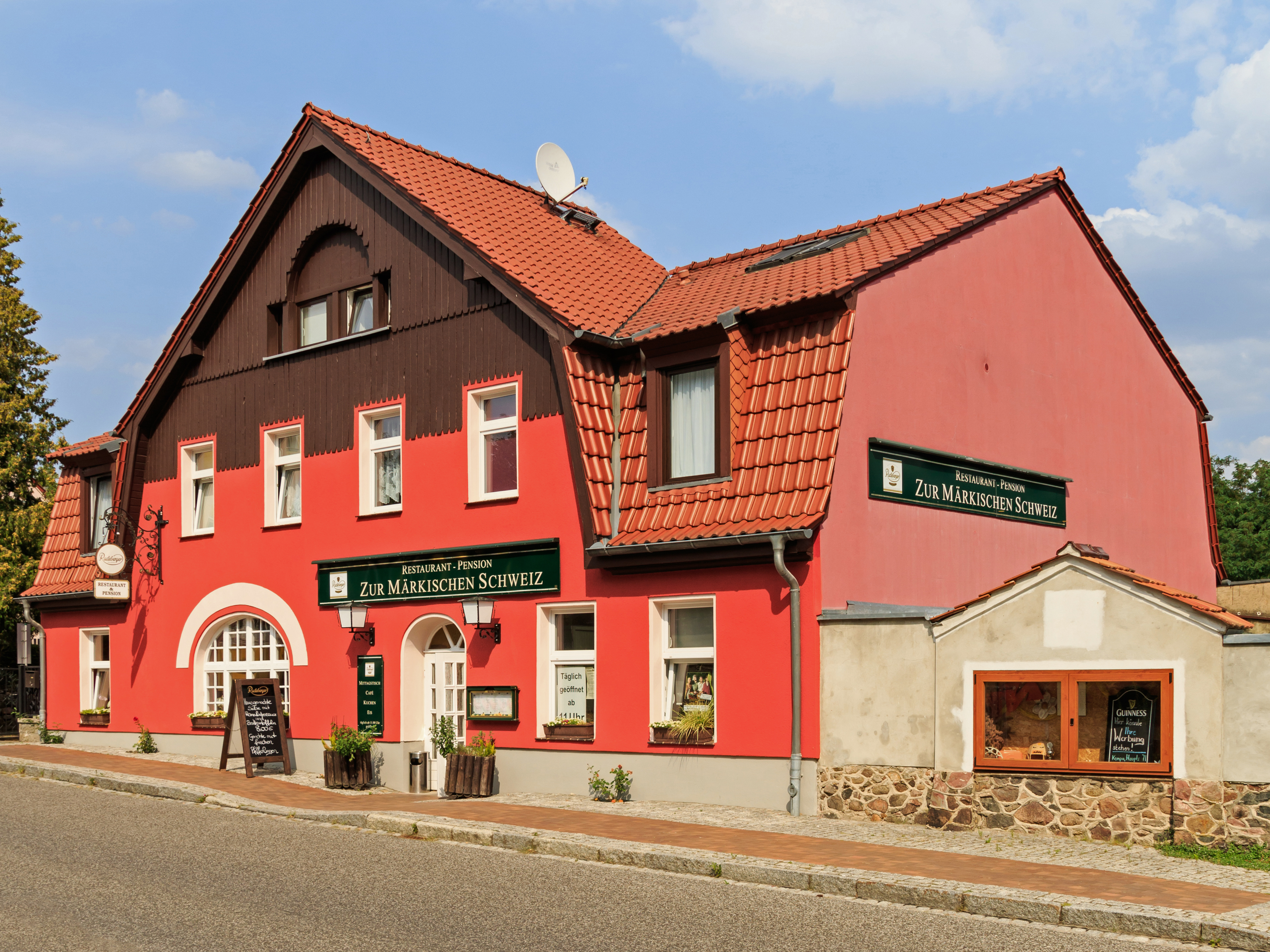 Restaurant / guest house „Zur Märkischen Schweiz“ in Buckow (Märkische Schweiz), Brandenburg, Germany